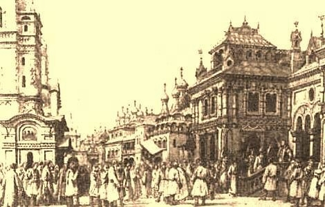 Design for the Call to the Throne scene used in the premiere production of the opera Boris Godunov at the Mariinsky Theater (1874)